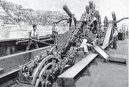 The "Grappin Verpilleux" from l'Illustration of 15 April 1896, page 318, showing the drive chains and grapple wheel. The view is at Rambaud on the left bank of the Saône.